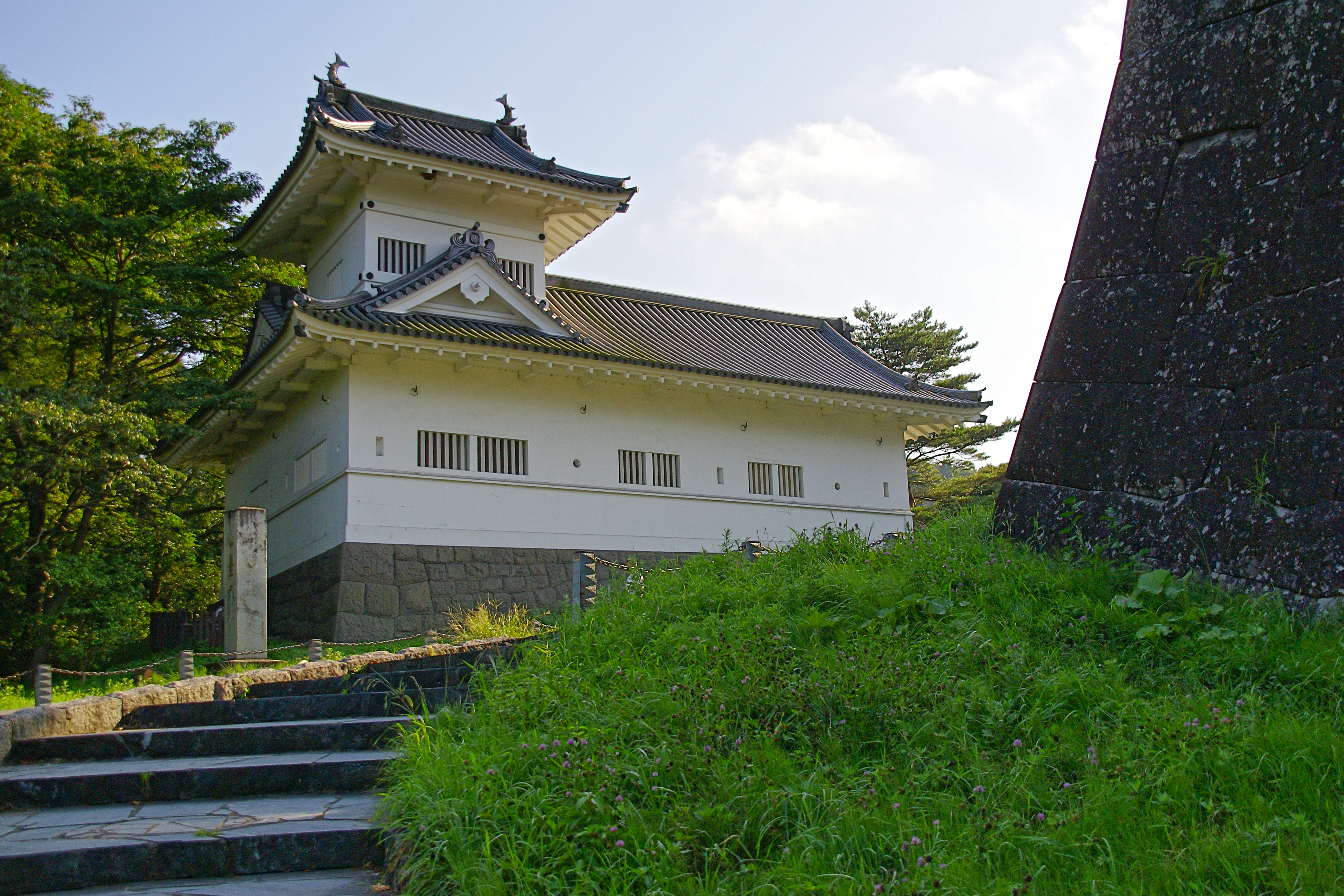 Sendai Castle in Sendai, Miyagi prefecture, Japan